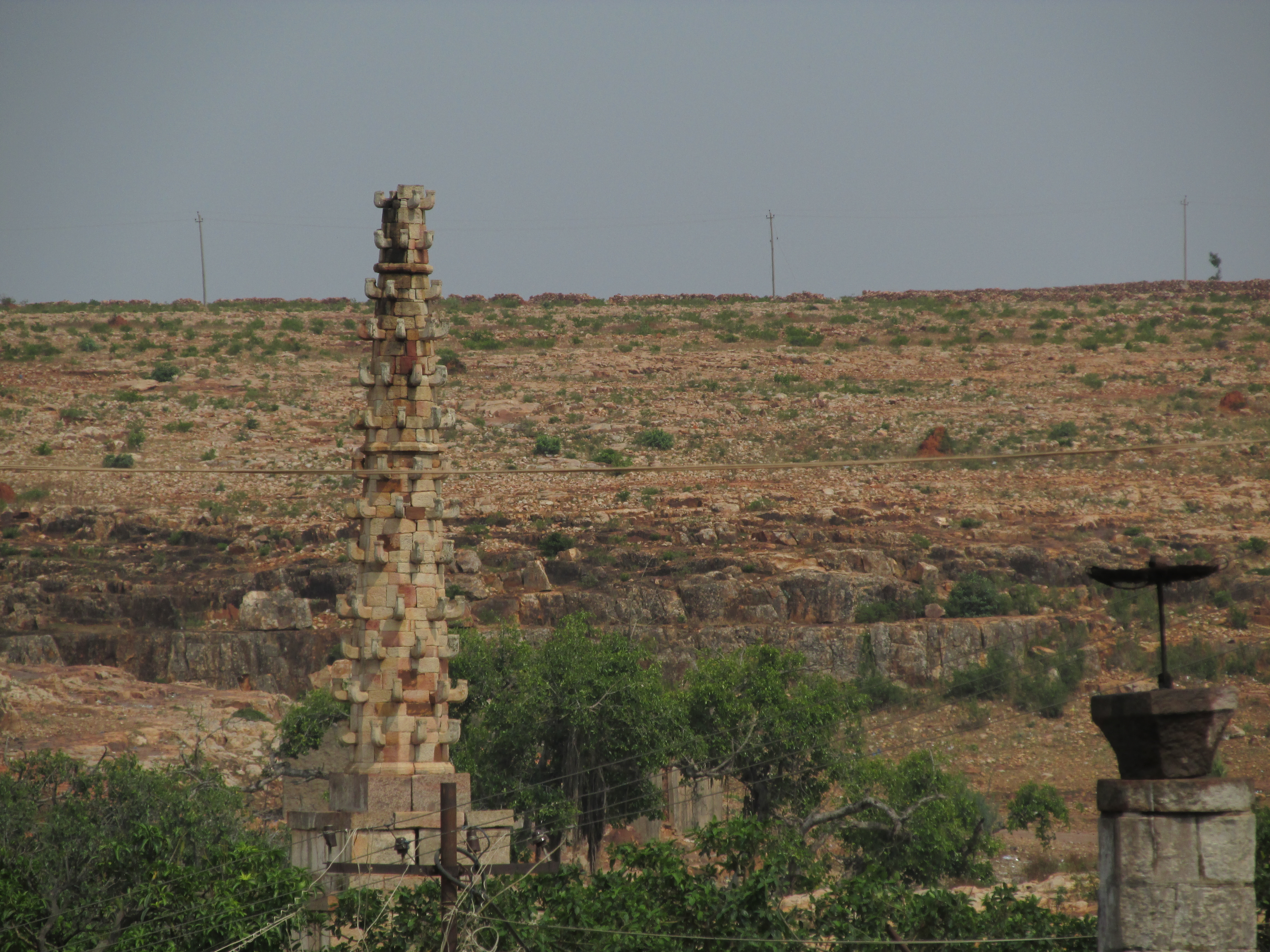 Large temple in bed of Krishna and small temple of Yellamma